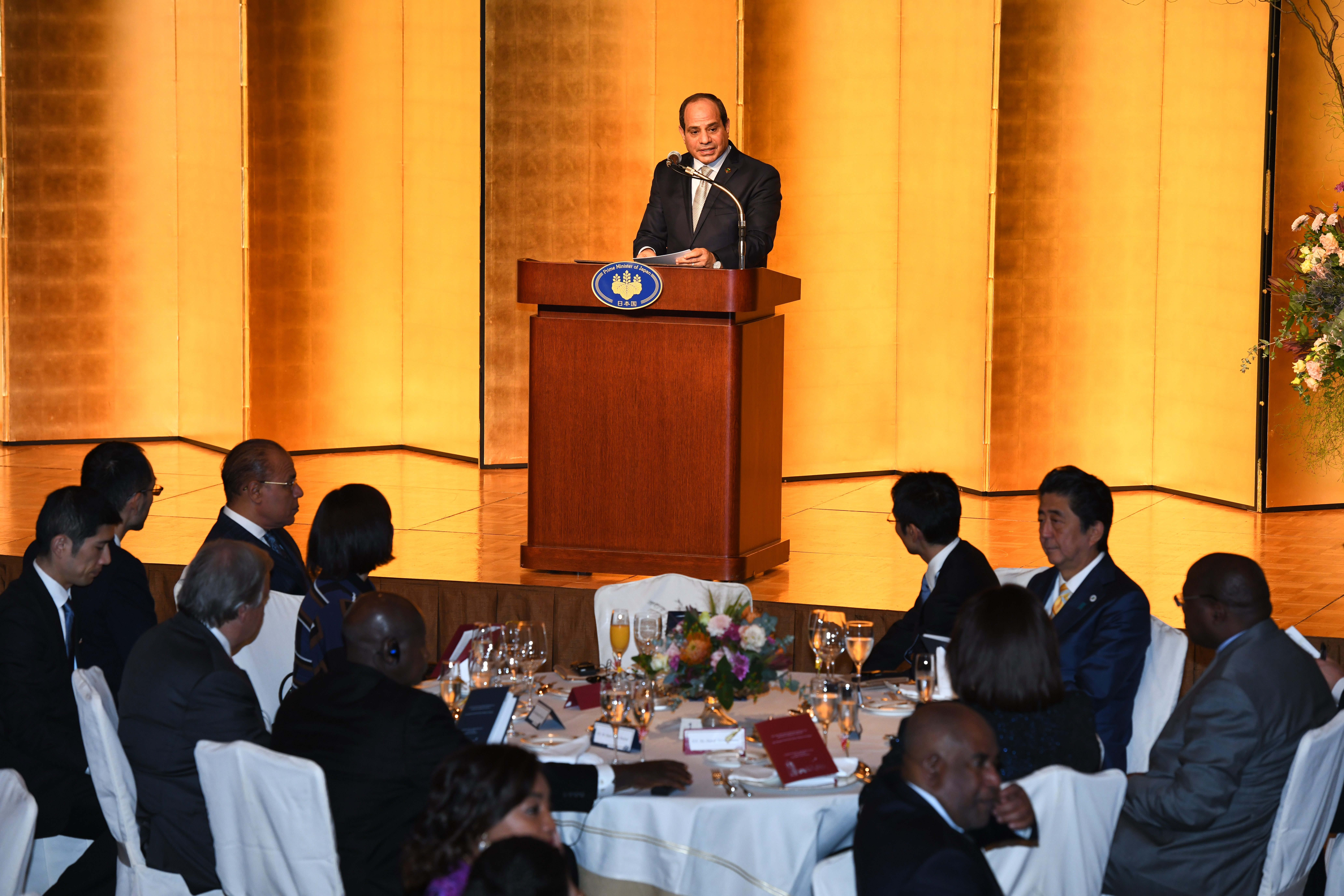 Speech of Egyptian President Abdel Fattah al-Sisi at the Banquet hosted by Prime Minister Shinzo Abe